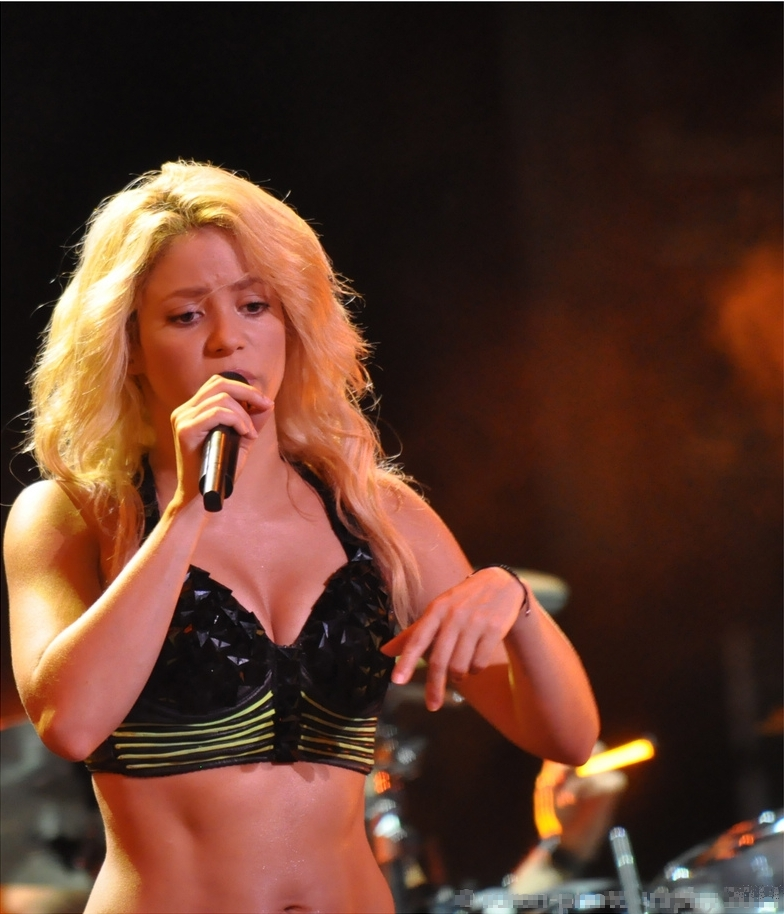 Shakira live at the 2011 Singapore Grand Prix.